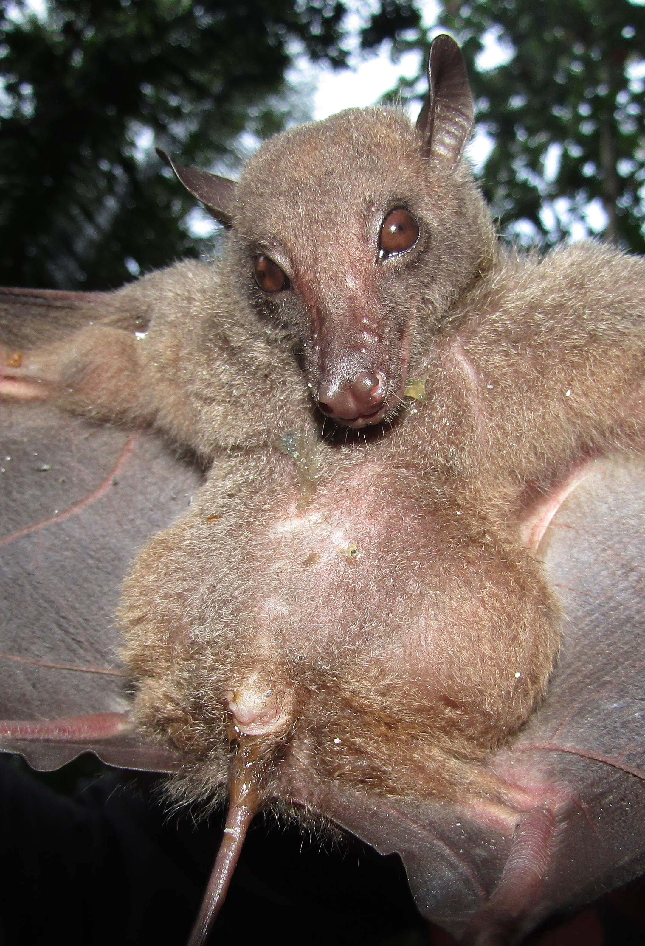 Sulawesi Rousette (Rousettus celebensis) at Siau Island, North SulawesiBahasa Indonesia: Codot-roset sulawesi (Rousettus celebensis) di Pulau Siau, Sulawesi Utara